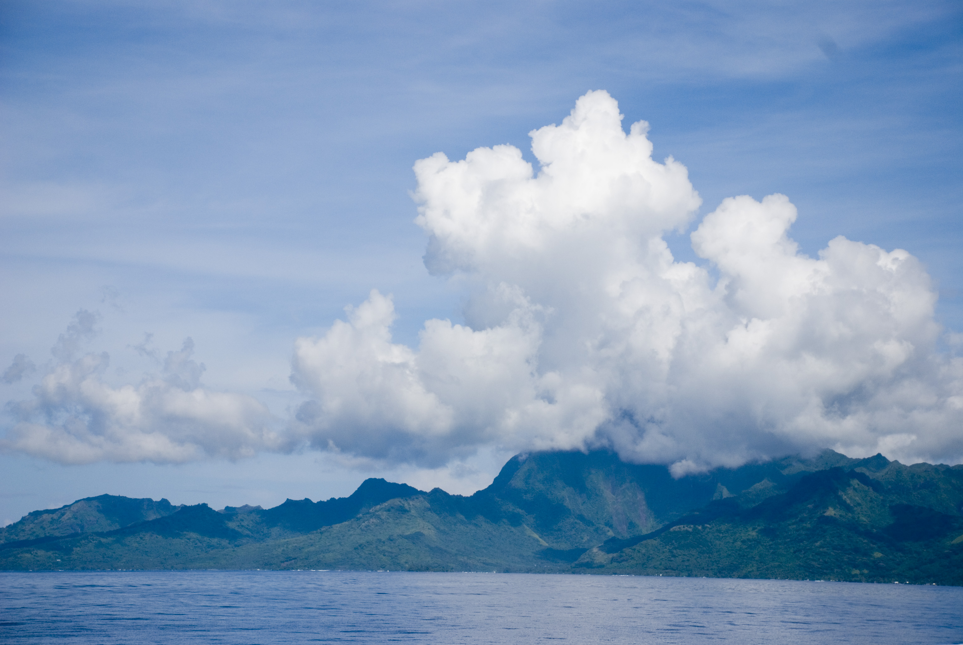 Ocean view of Mo’orea